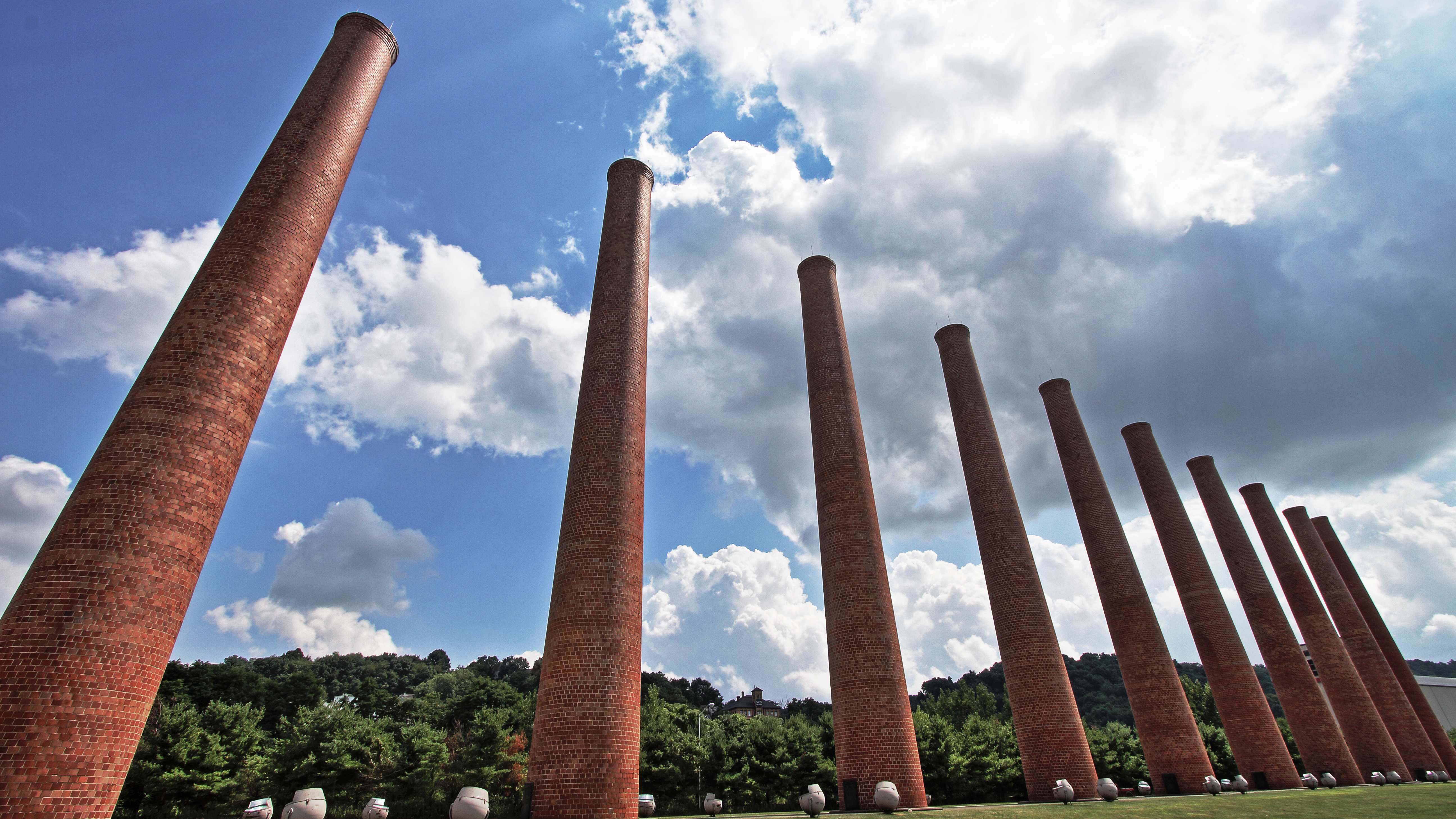 The open hearth stacks from US Steel's Homestead Works, left to pay homage to the complex's former use as a steel mill